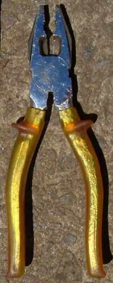 Linesman's pliers 14:39, 23 Feb 2005 (UTC)